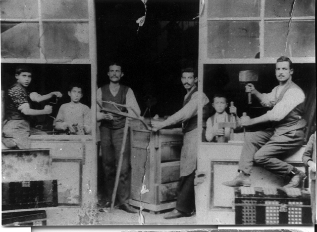 Carpentry workshop of the Alliance School in Jerus, Econimy of Israel